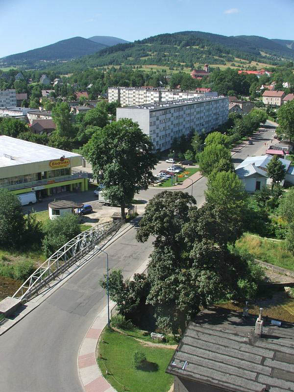 Stronie Śląskie – town in Lower Silesia (Poland) and Śnieżnik Mountains